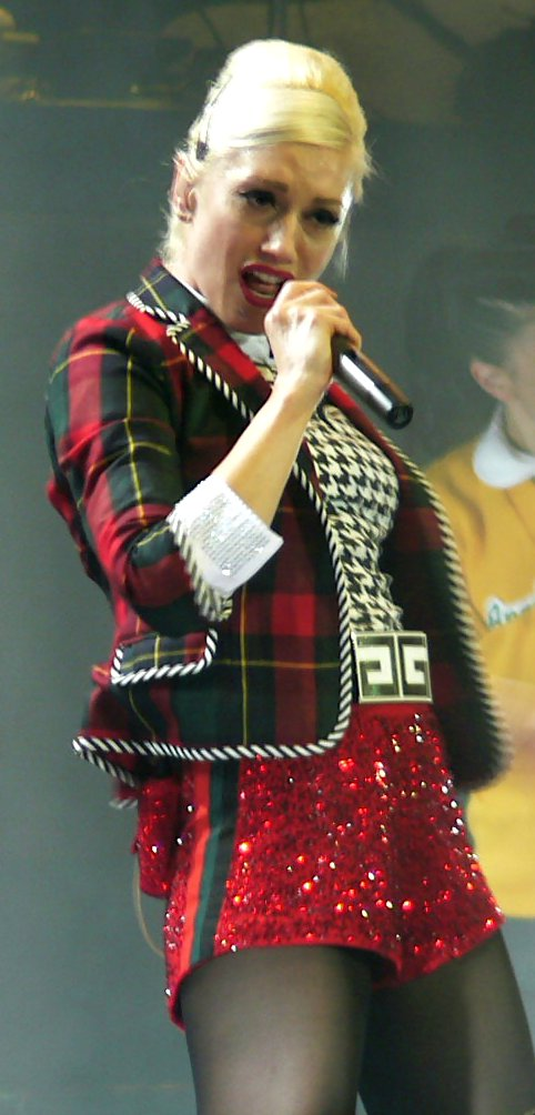 Gwen Stefani performing at the Cynthia Woods Mitchell Pavilion in Houston, Texas, United Statesgwen